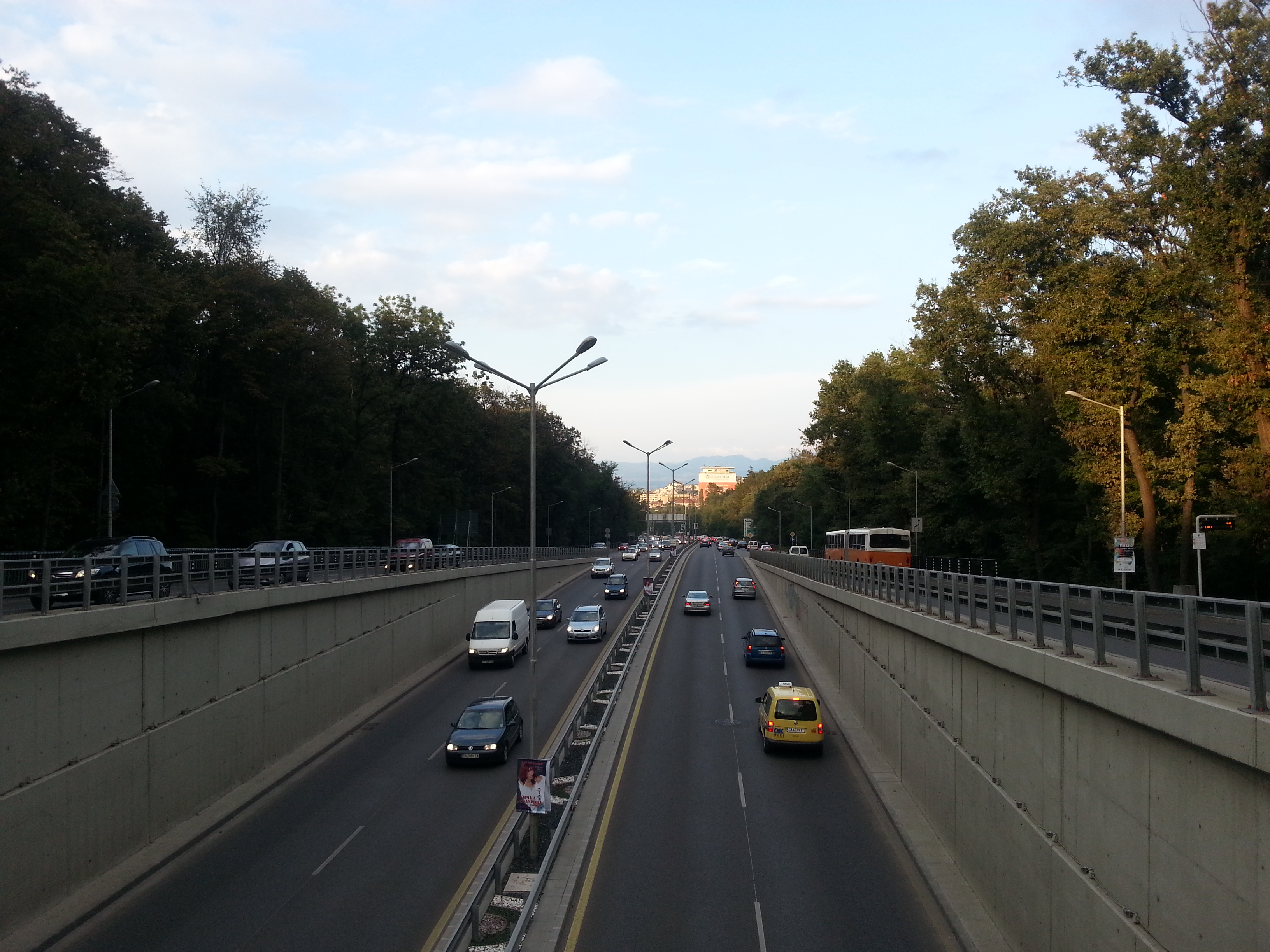 "Peyo Yavorov" Boulevard, Sofia